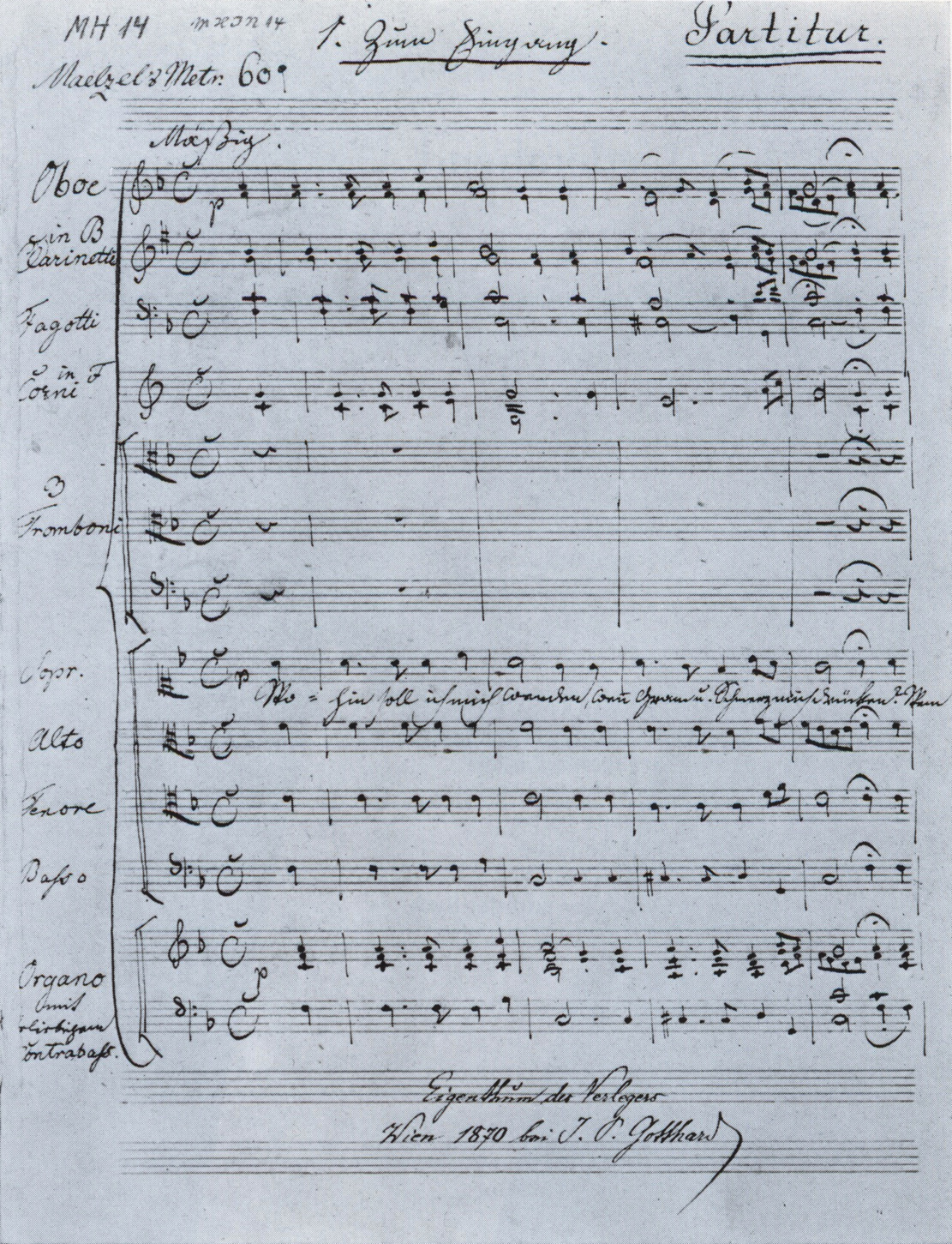 The first page of Schubert's Deutsche Messe, the movement entitled "Wohin soll ich mich wenden" ("Where should I go?"). Autograph.